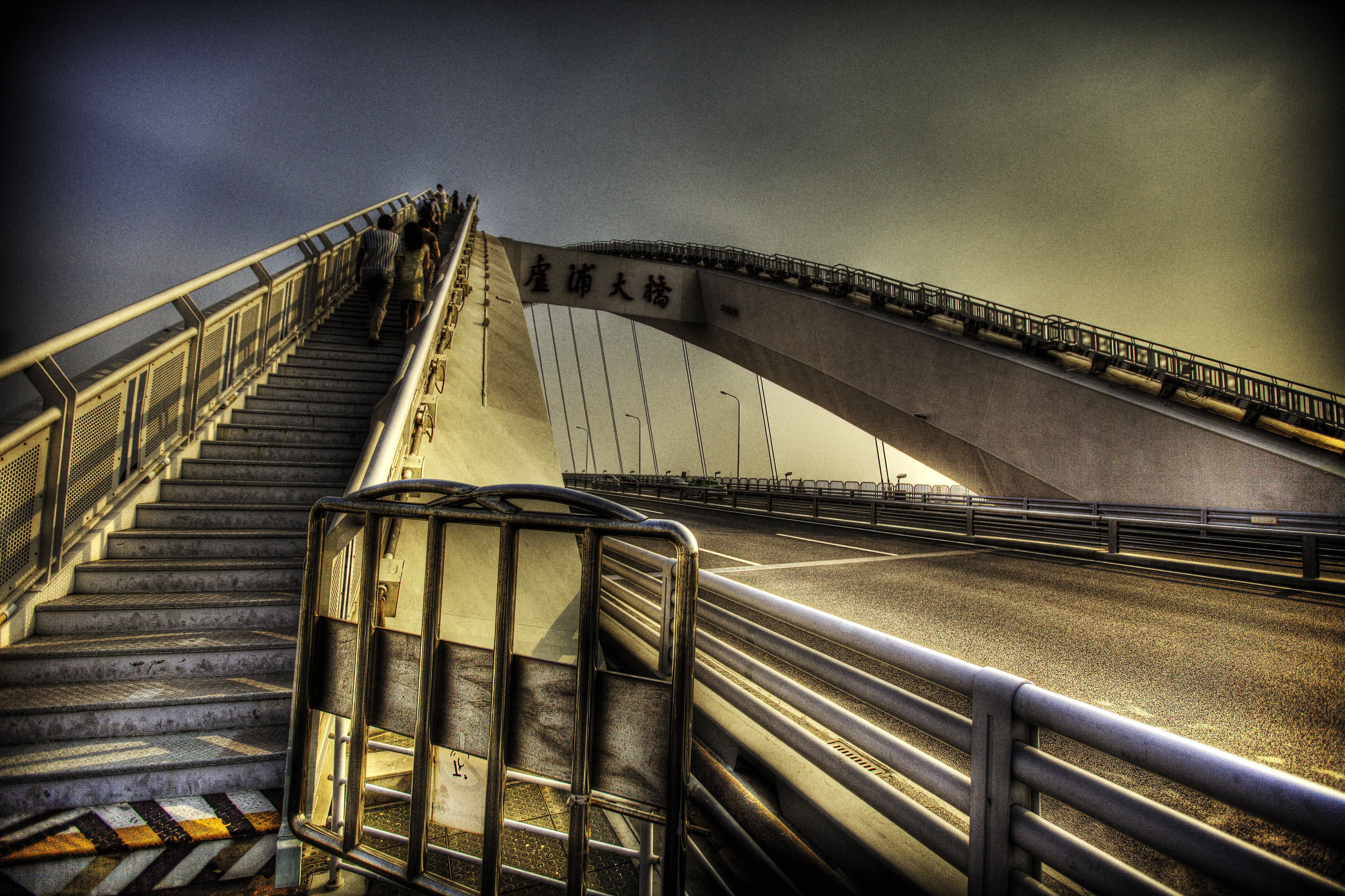 Lupu Bridge